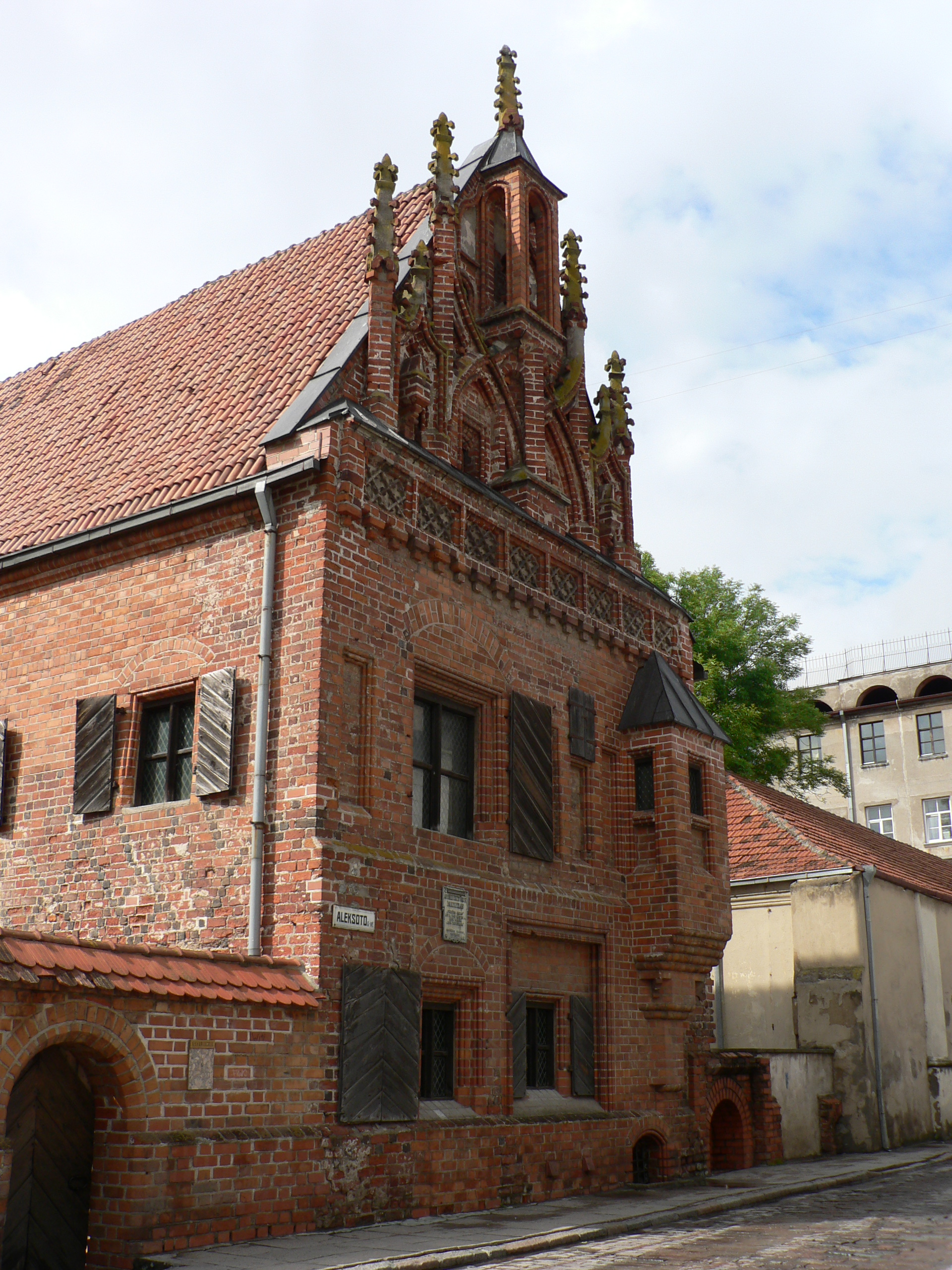 Perkun House, Kaunas, Lithuania.